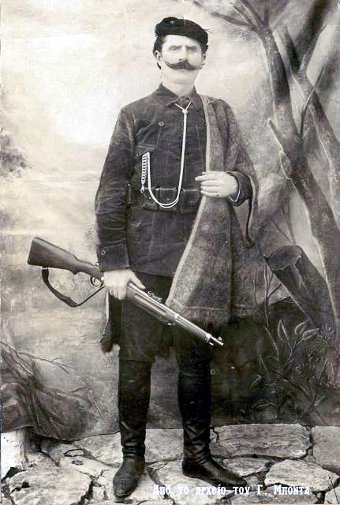 Pavlos Perdikas